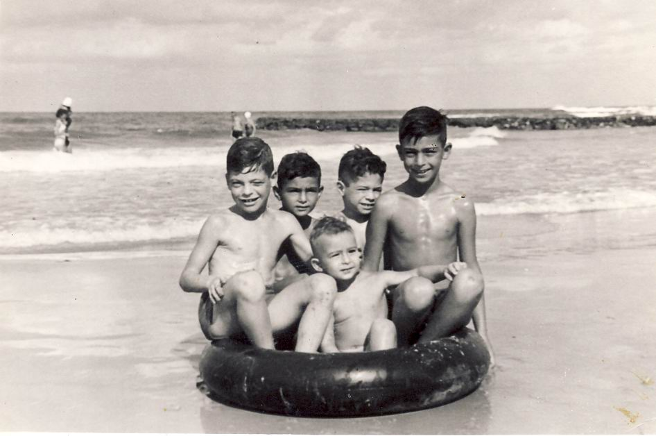 People of Israel